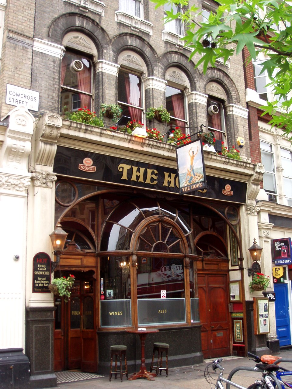 A pub on Cowcross St near Smithfield Meat Market. Address: 94 Cowcross Street. Former Name(s): The Hope and Sirloin (well, that's what BITE calls it). Owner: Young's (possibly a former owner?). Links: London Pubology